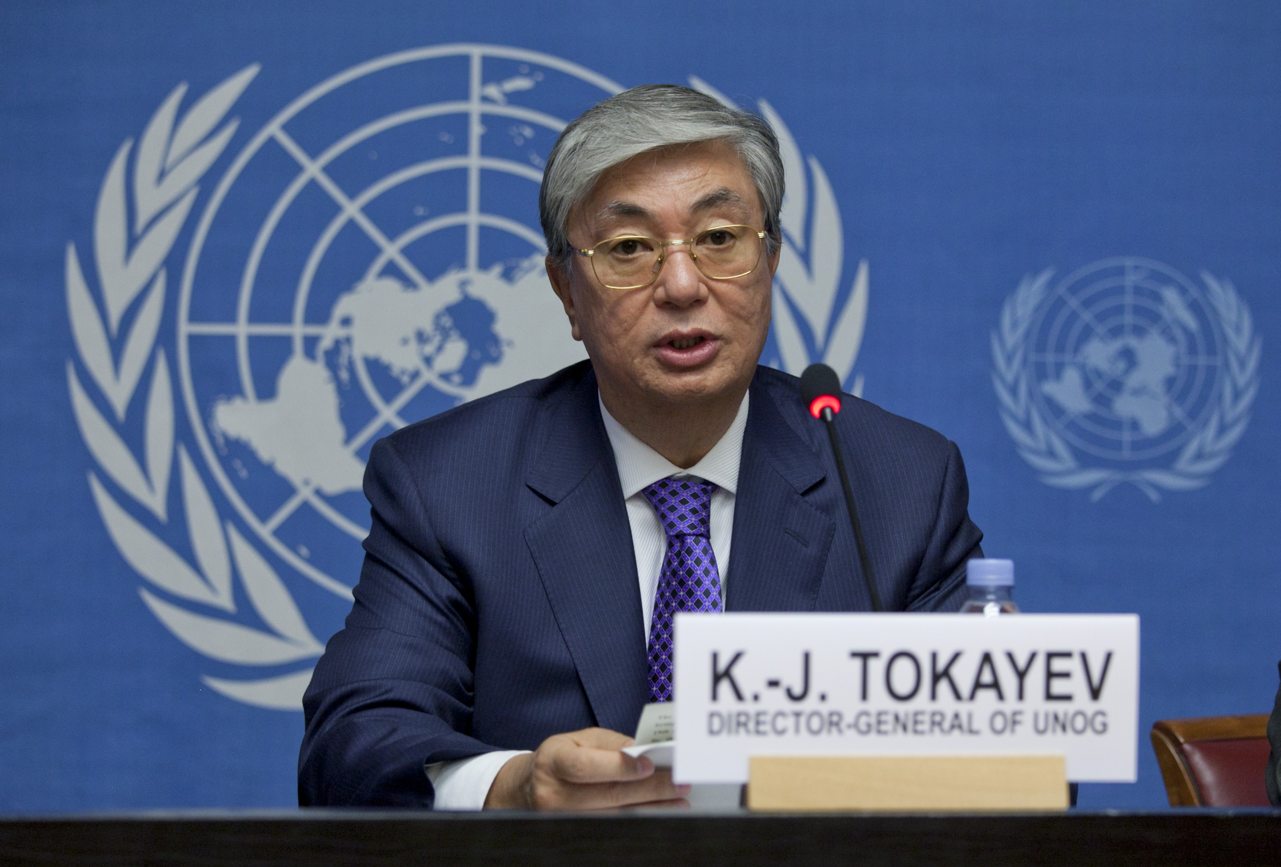 Kassym-Jomart Tokayev